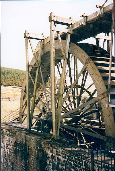 Killhope Wheel. The lead mining museum at Killhope is a fascinating place to visit.